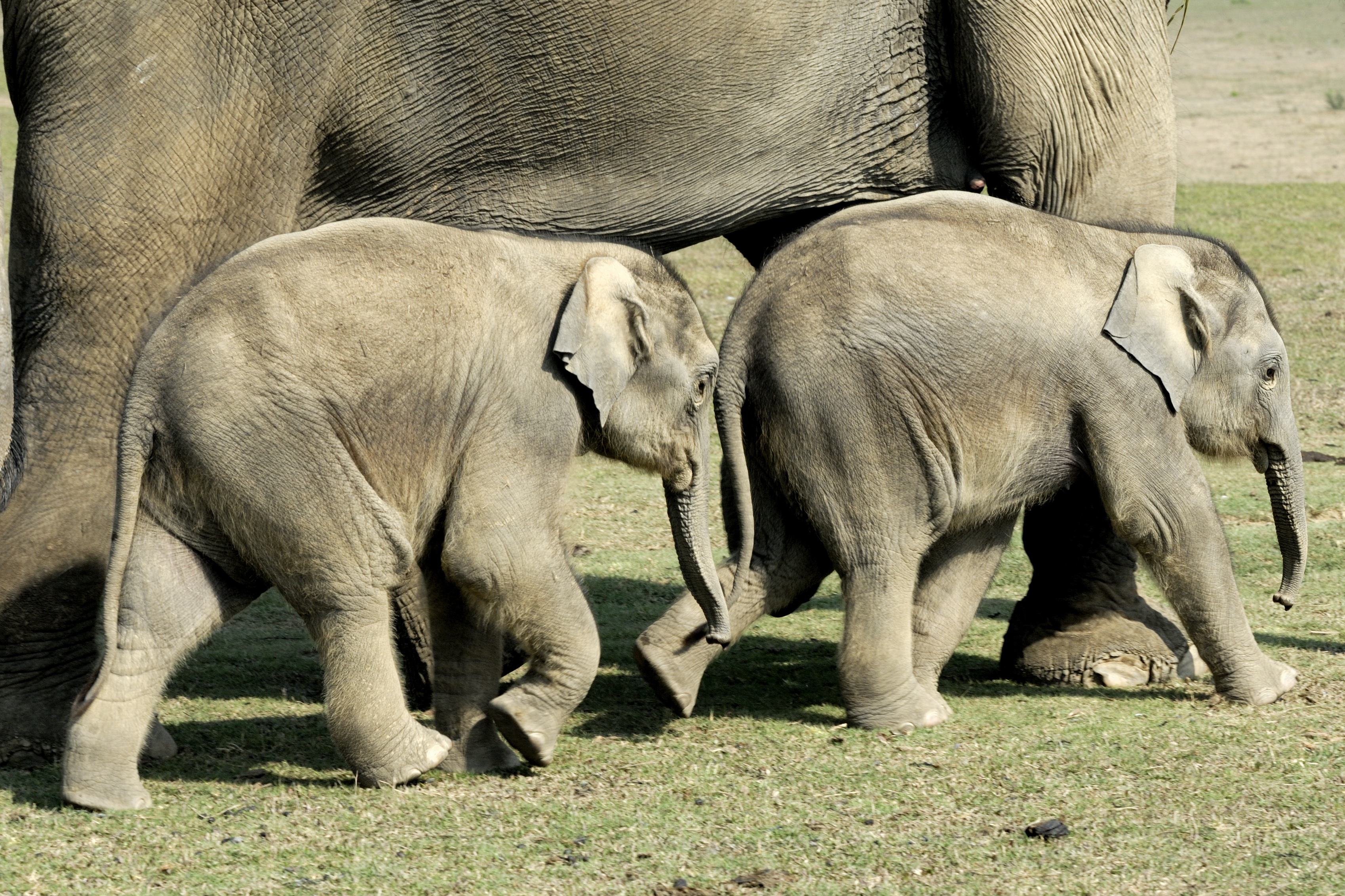 Twin elephant babies, Chitwan